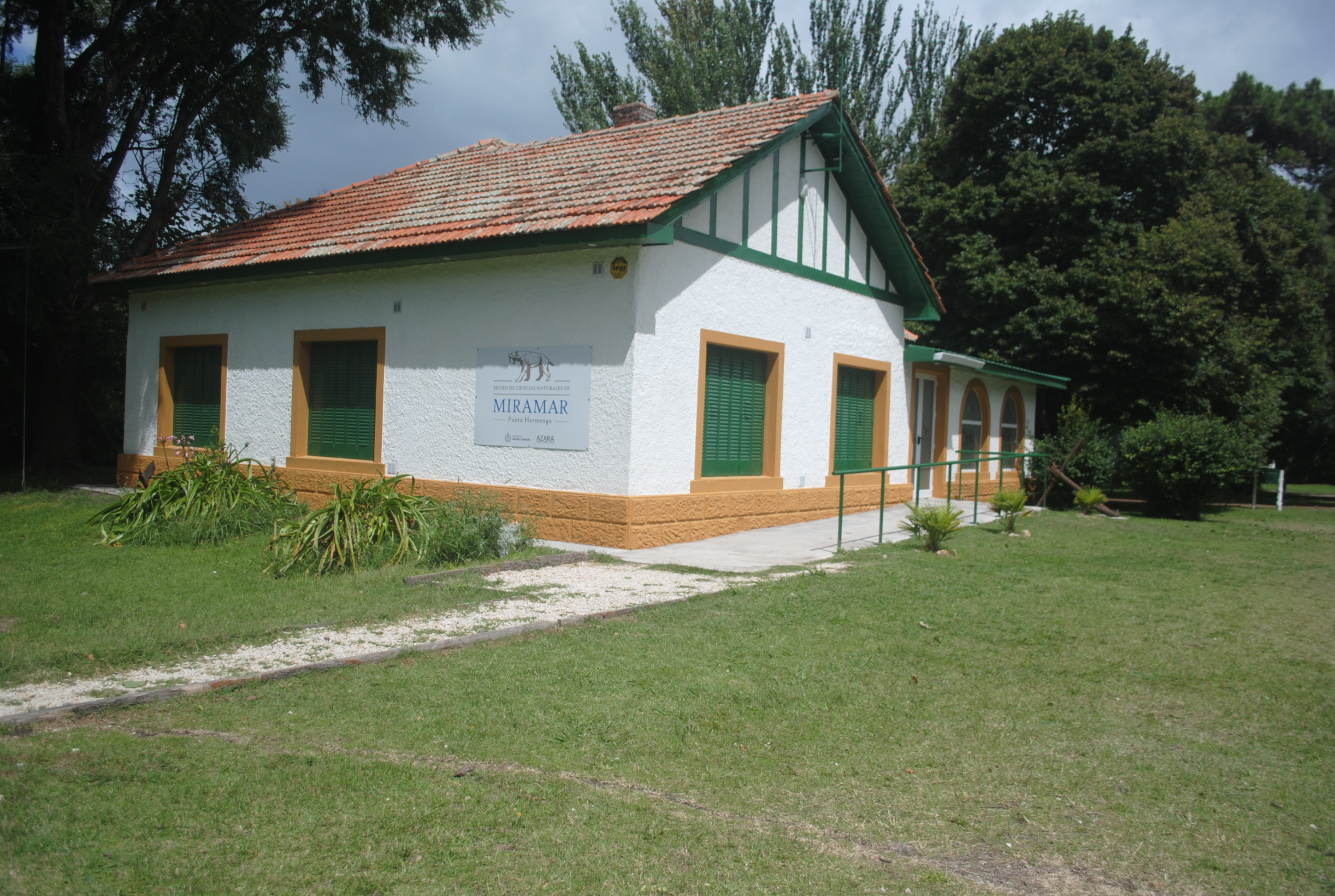 New home of the Museo Municipal Punta Hermengo, Miramar, Buenos Aires province, Argentina, since november 2019